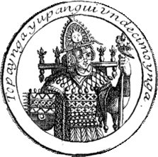 Portrait of Tupac Yupanqui, detail of the frontispiece to the fifth Decade of Historia general de los hechos de los castellanos en las Islas y Tierra Firme del mar Océano que llaman Indias Occidentales by Antonio de Herrera